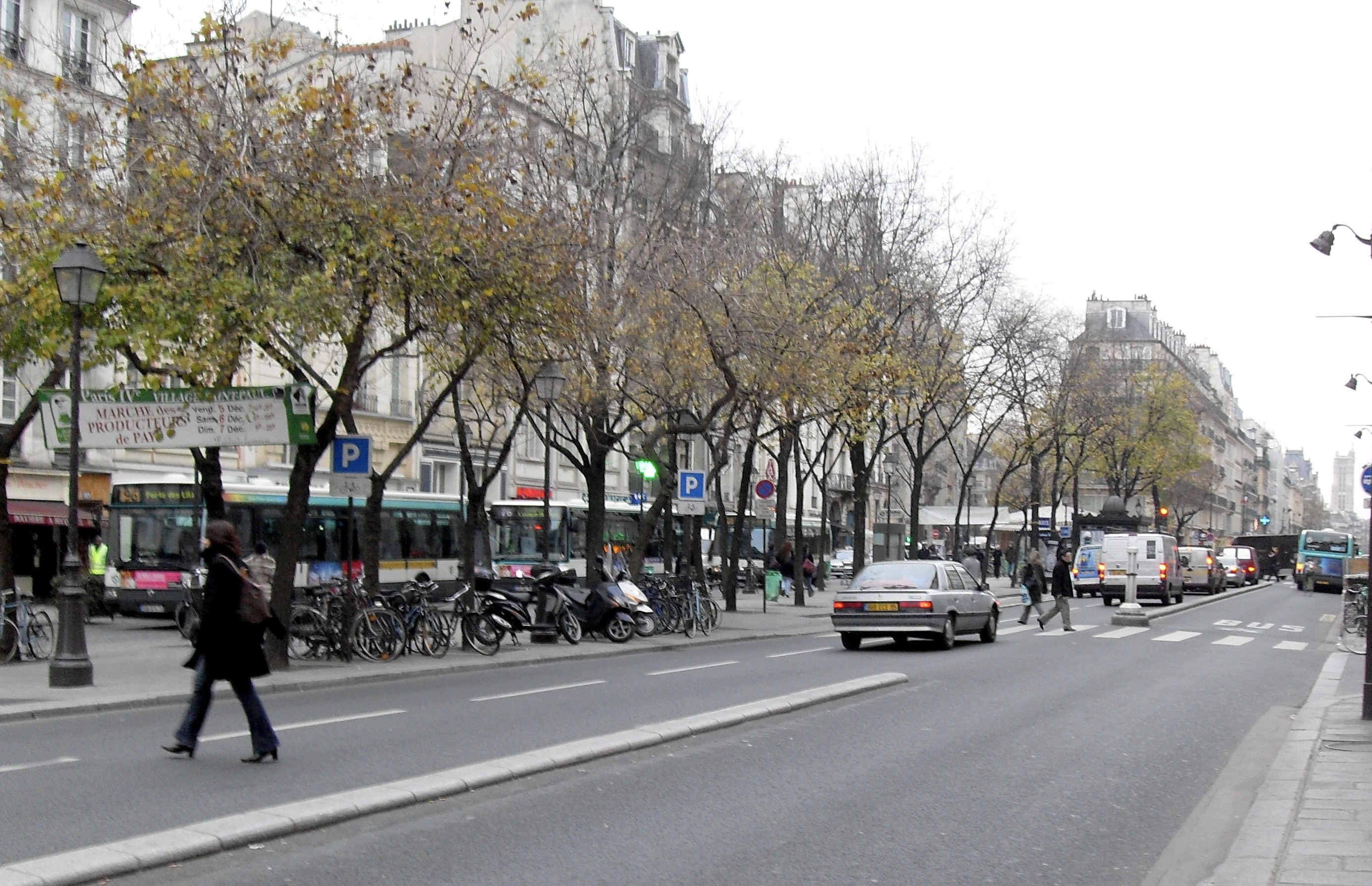 Place Saint Paul in Paris. This place was once called "Pletzl" when the quarter around was inhabited with jews coming from east europa at the end of 19 century and beginning of 20 century.